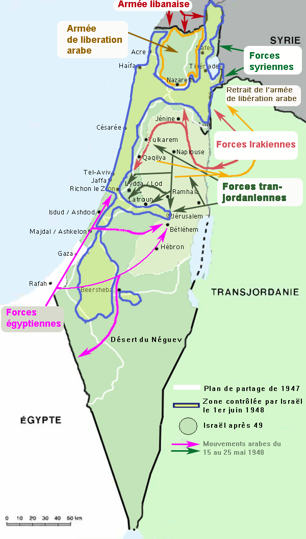 Map of the military situation in Israel / palestine, on june 1948, the first. Carte de la situation militaireen Israël / Palestine, le 1er juin 1948.